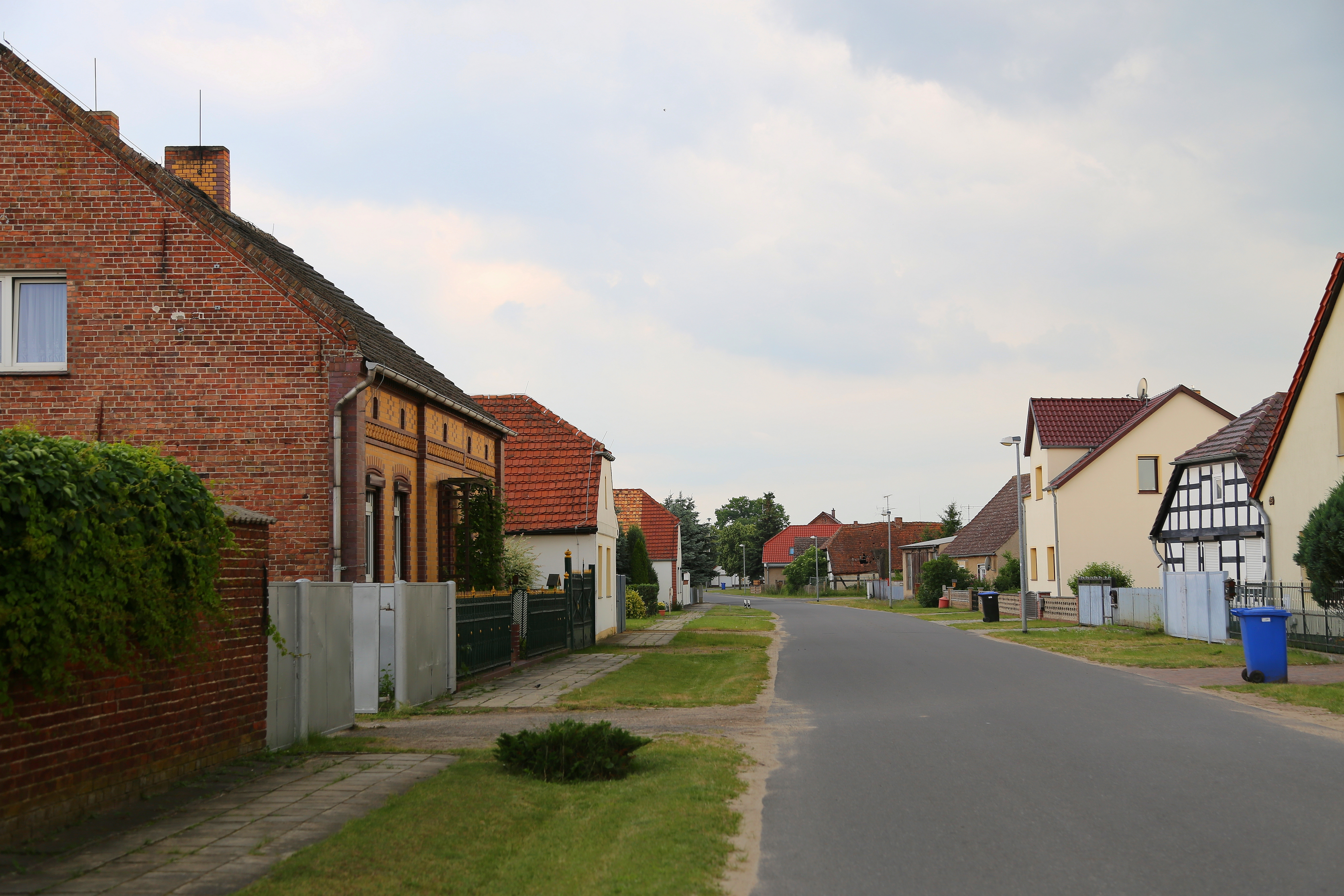 Lubolz Main Street (Lubolzer Hauptstraße) in Groß Lubolz. Lubolz is a district of Lübben, Landkreis Dahme-Spreewald, Brandenburg, Germany.